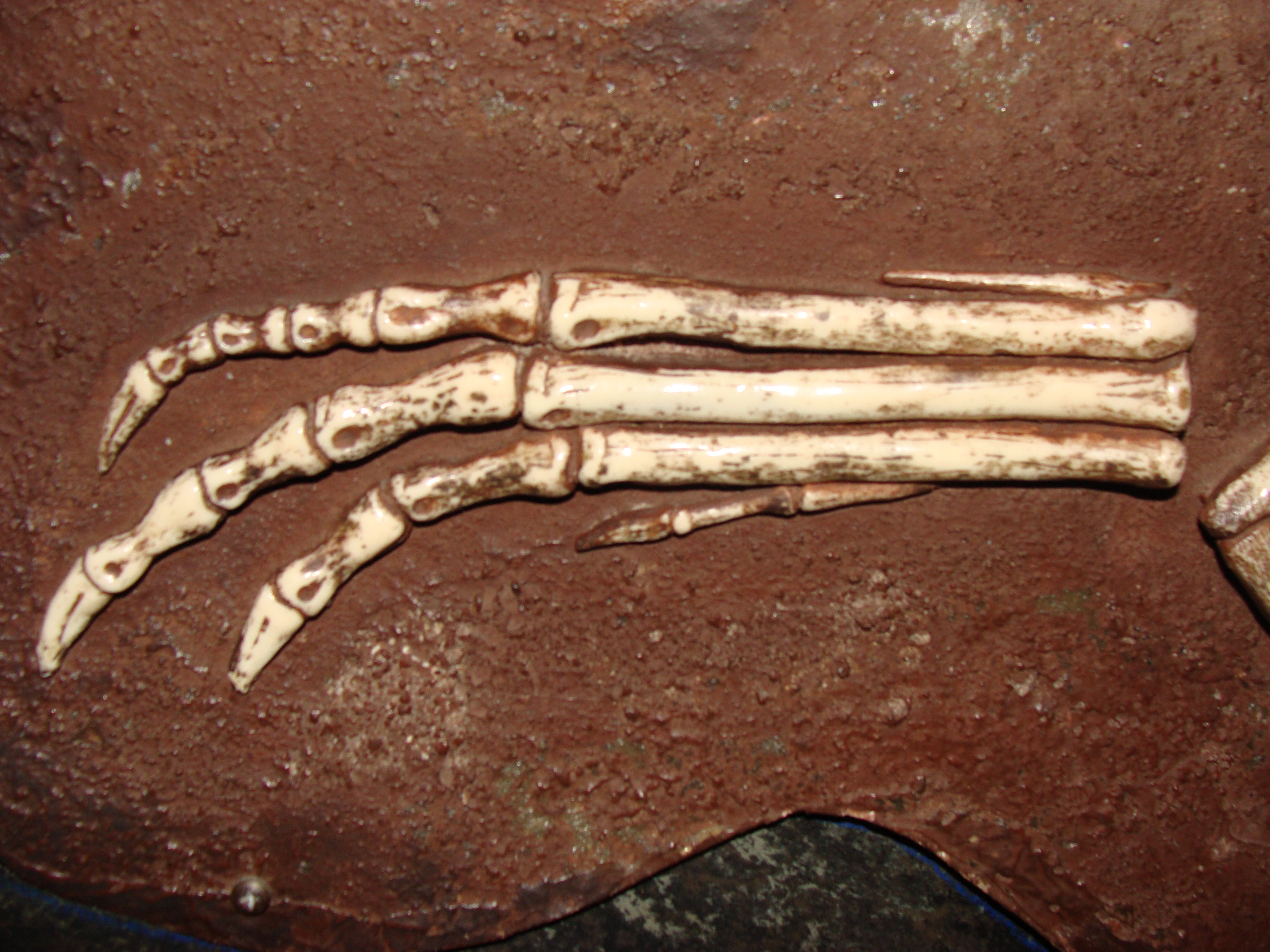 Coelophysis in the Natural History Museum of London